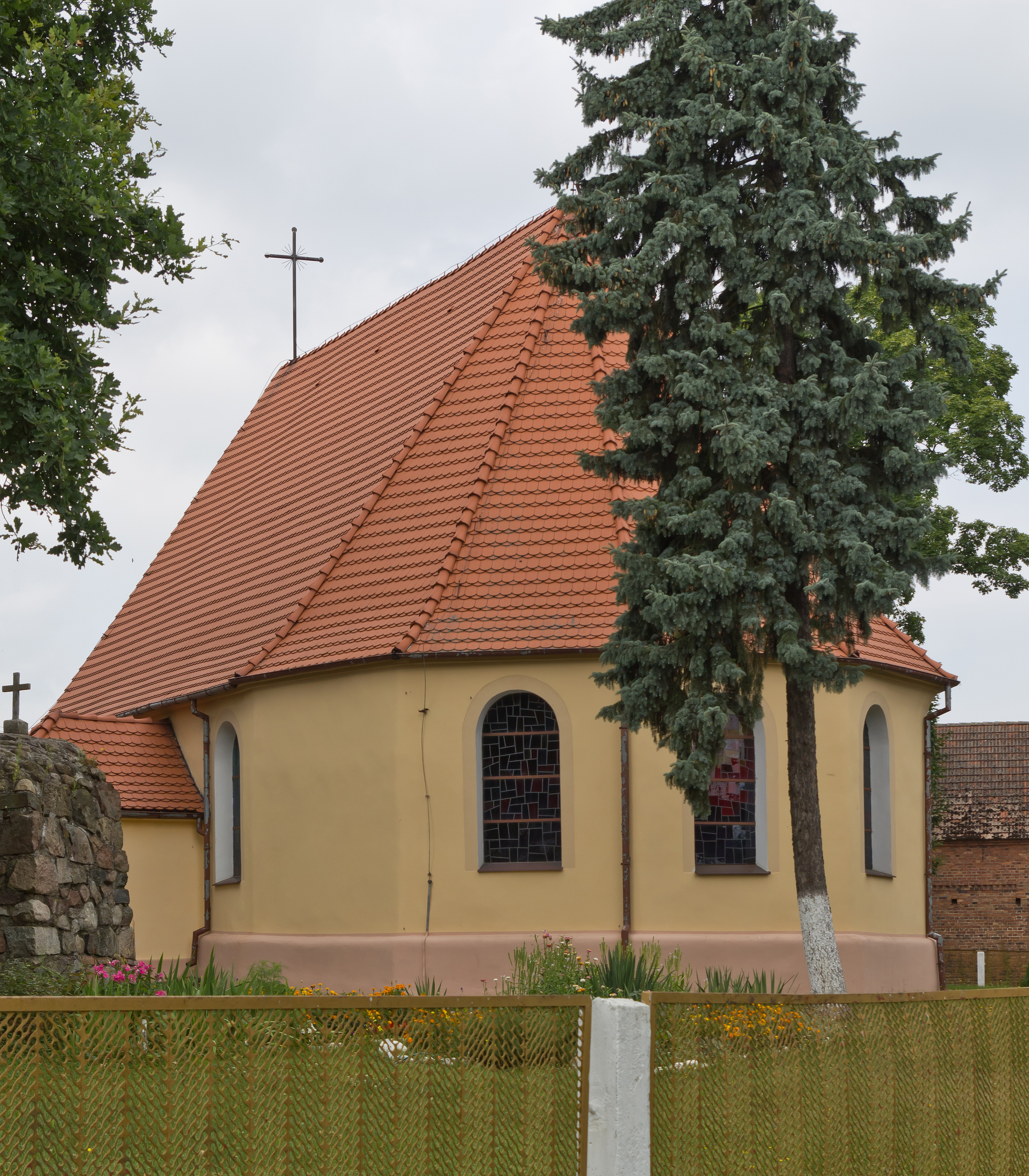 Church in Chlebowo (near Gubin), Lubusz Voivodeship, Poland